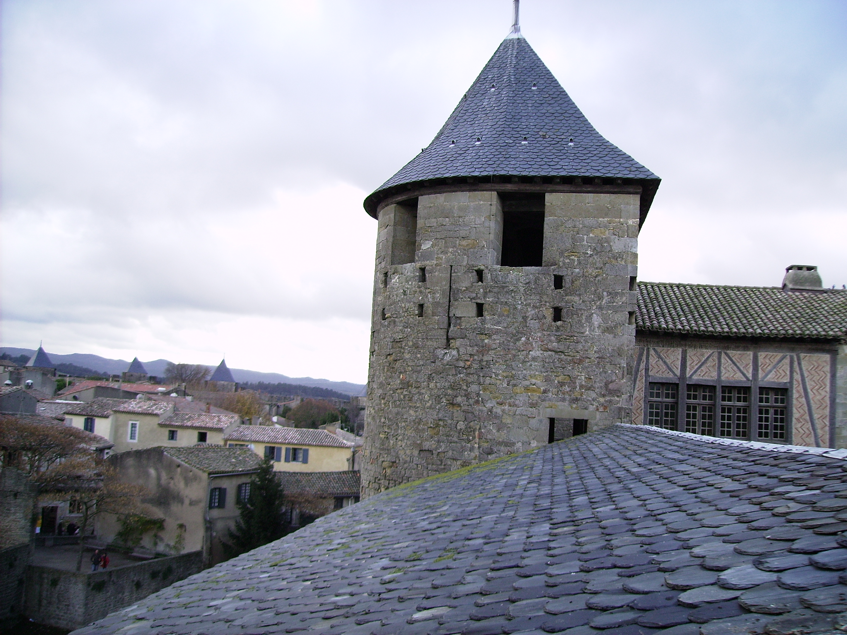 A roof and a tower of Carcassonne's castle.